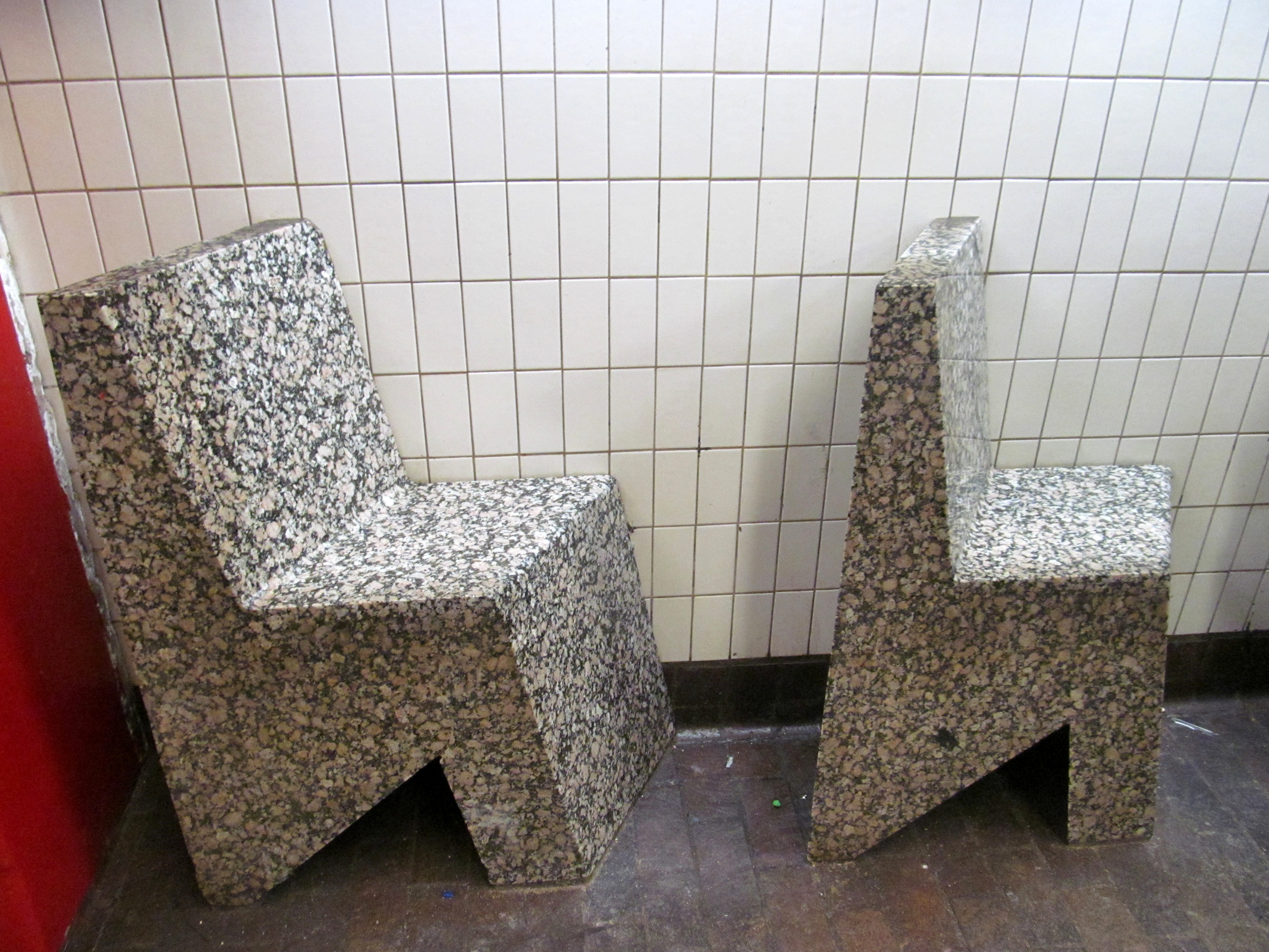 Two of the 31 "Situations" chairs on the Red Line platforms at Downtown Crossing station, seen in February 2013